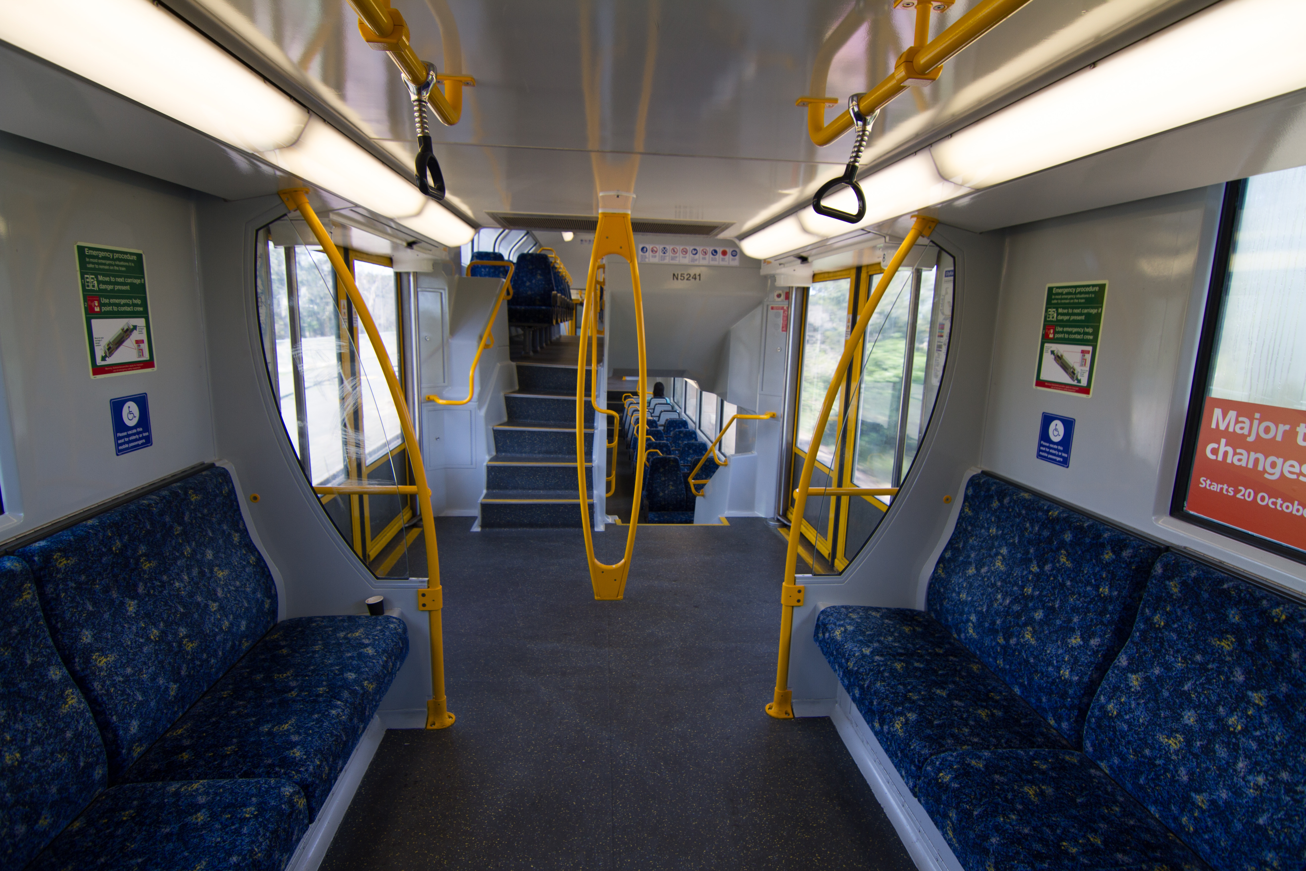 Refurbished Tangara train interior